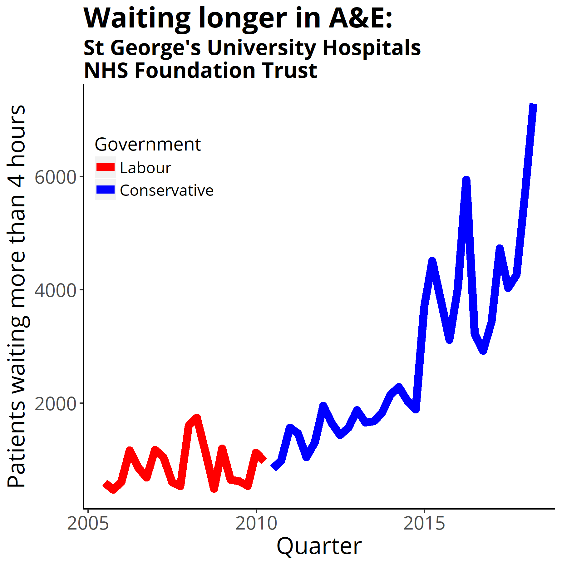 Four-hour target in the emergency department quarterly figures from NHS England A&E waiting times and activity. NHS England. Retrieved on 24 April 2018.